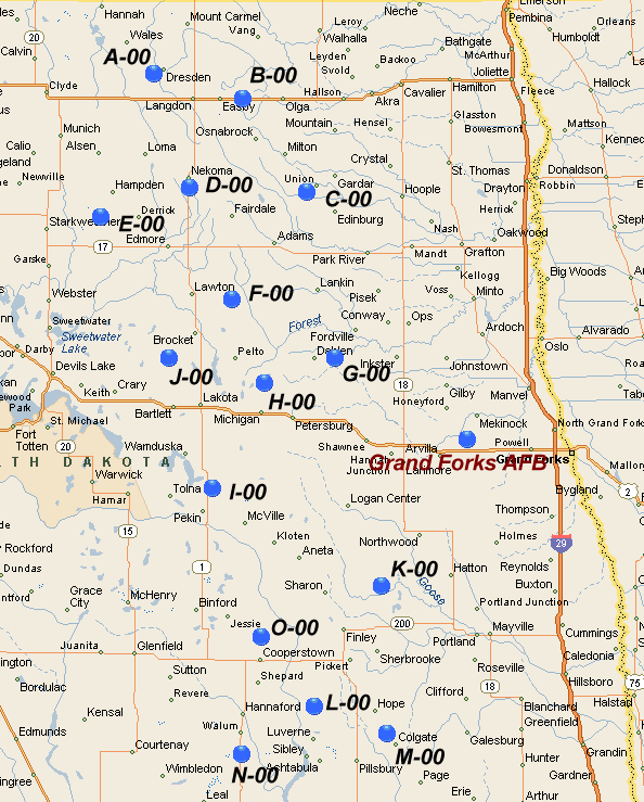 321st Missile Wing - LGM-30 Minuteman III Missile Alert Facilities